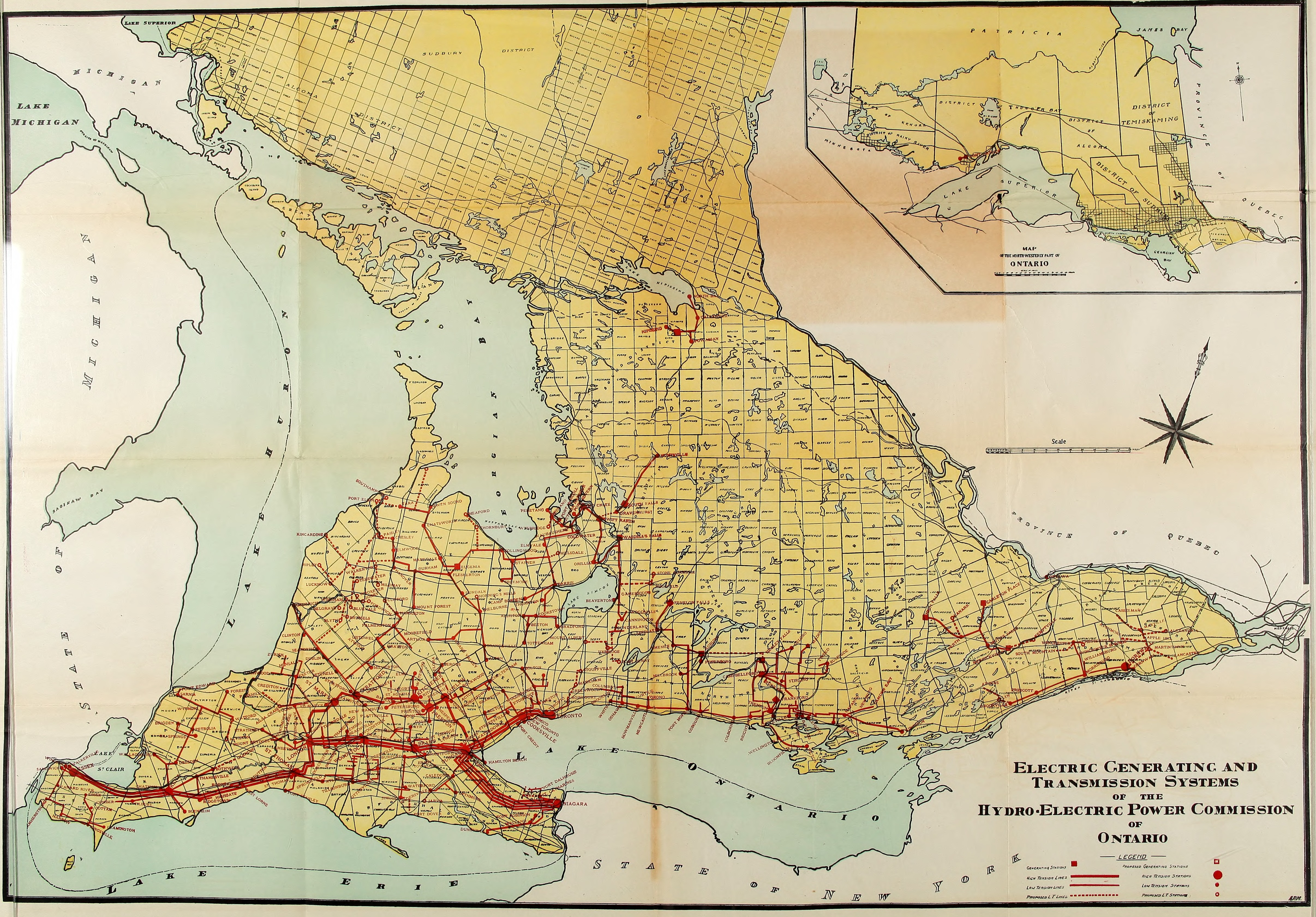 Title: Annual report 1919 Year: 1919 (1910s) Authors: Ontario Hydro Hydro-Electric Power Commission of Ontario Ontario Hydro International Inc Subjects: Publisher: Text Appearing Before Image: 7 W. Wasdells System—Financial State-ment • •. 136 Wasdells System—Municipal Work. 246 PAGE Wasdells System—Operation of .... 90 Waterford—Distributing Station ... 191 Waterloo—Municipal Work 239 Waterloo Township—Municipal Work 239Waterloo Township—Rural Syndi-cates 260 Welland—Municipal Station 180 Wellington—Distributing Station .. 209 Wellington—Municipal Work 252 Wellington-Picton—Service 77 Whirlpool—Distributing Station ... 177 Winchester—Distributing Station .. 212 Winchester—Municipal Work 256 Winchester Springs—Municipal Work 256 Windsor—Municipal Work 239 Wingham—Municipal Work 243 Wolverton Milling Company 192 Wood Milling Company, Copetown.. 182 Woodbridge—Distributing Station... 194 Woodstock—Municipal Station 189 Woodstock—Municipal Work 240 Woodstock—Transformer Station .. 189 Wyoming—Municipal Work 240 Y. Yarmouth Township—Municipal Work 240York—Temporary Transformer Sta-tion 194 York Township—Municipal Work .. 240 Text Appearing After Image: '